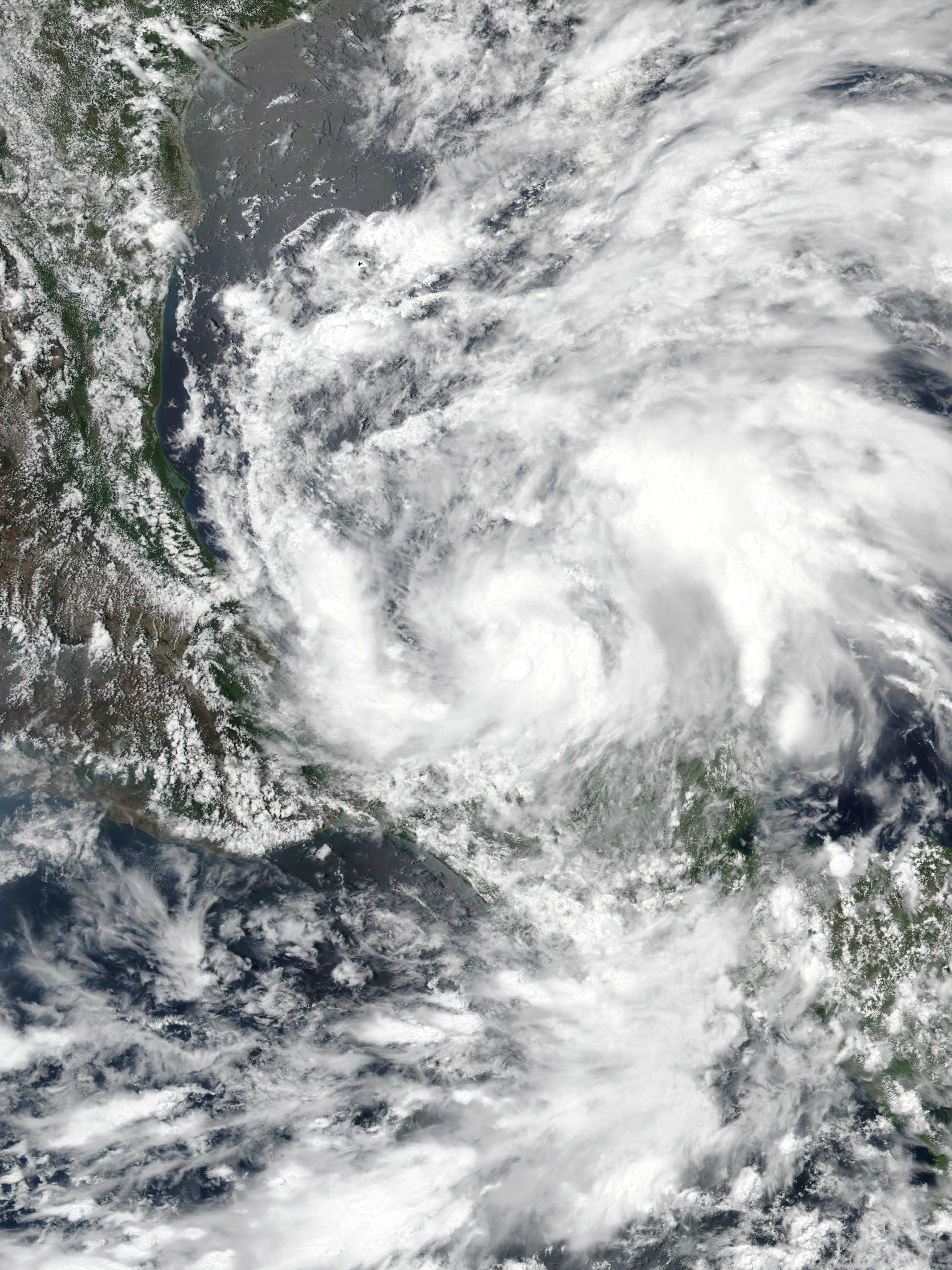 Tropical Storm Cristobal strengthening over the Bay of Campeche on June 2, 2020